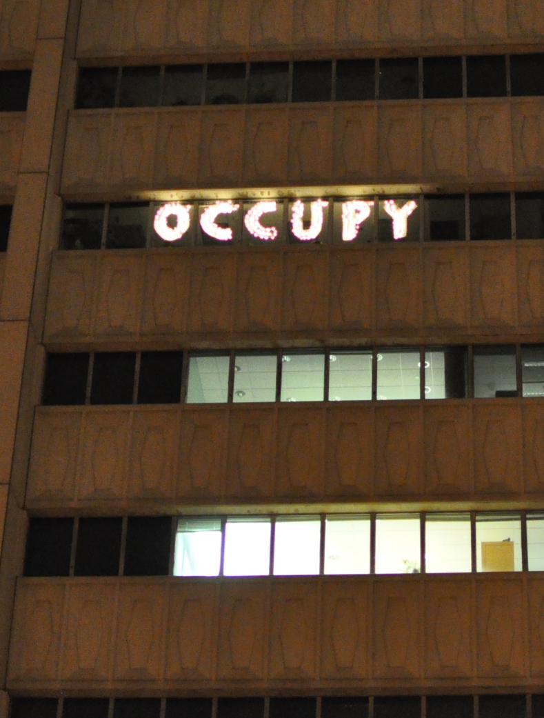 Nighttime "OCCUPY" message at William James Hall